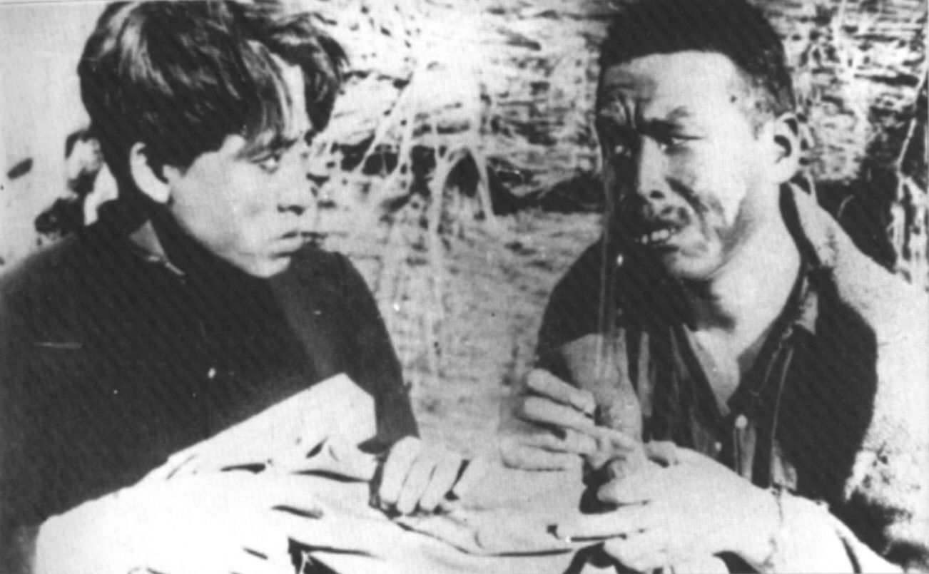 Promotional poster for the Na Woon-gyu (1902 – 1937) film, Chilbeontong sosageon (1936).*Description